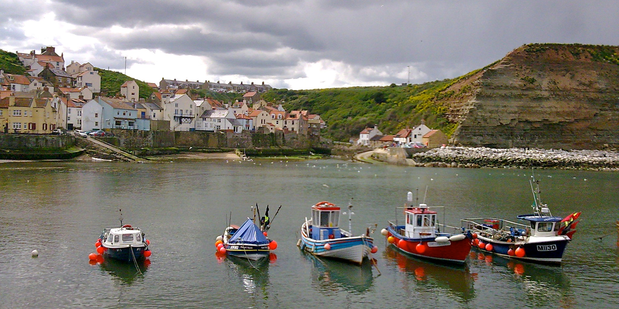 Staithes, North Yorkshire